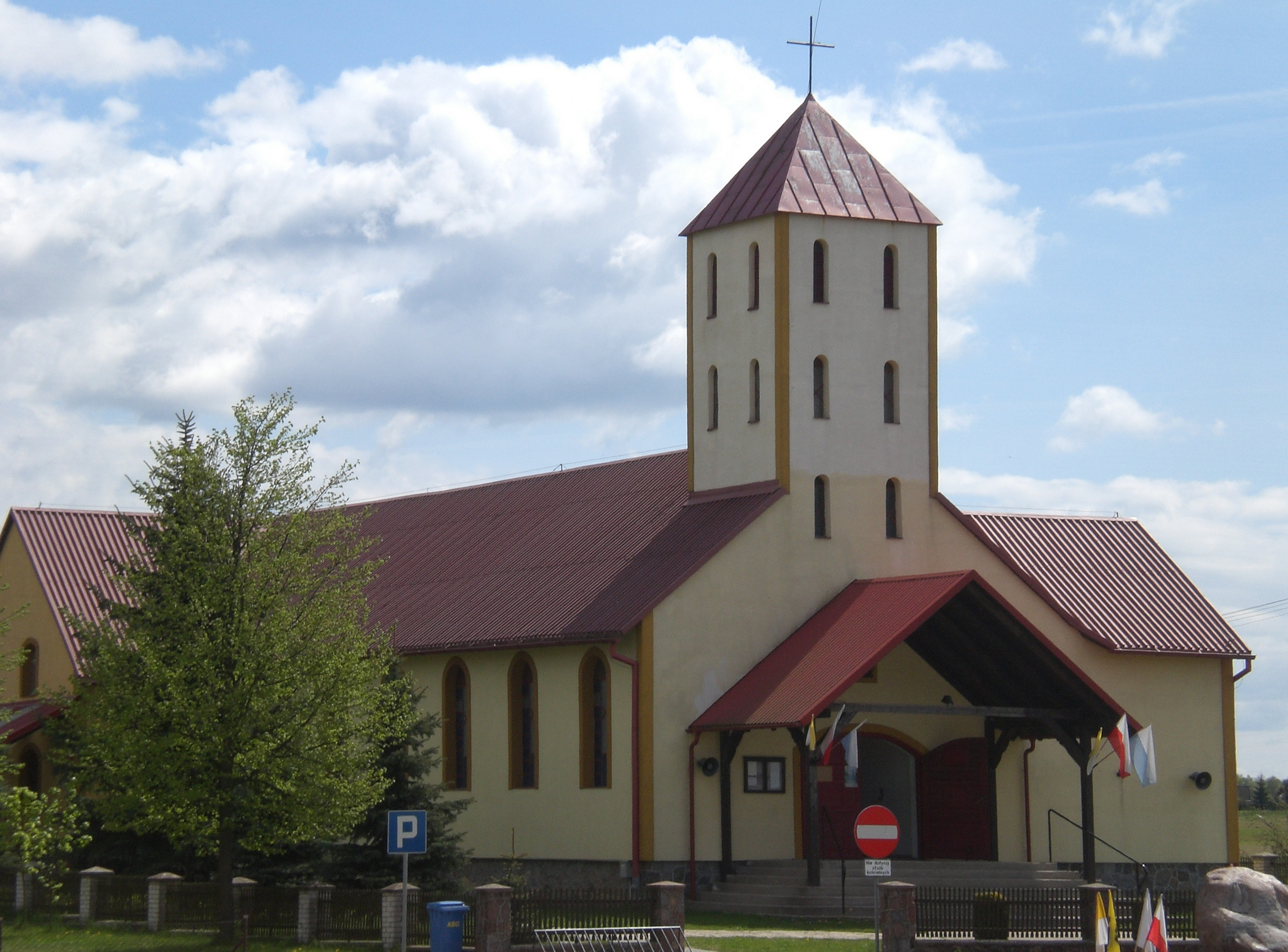 Lubań - St Peter and Paul (modern church) bd. 1987-1990